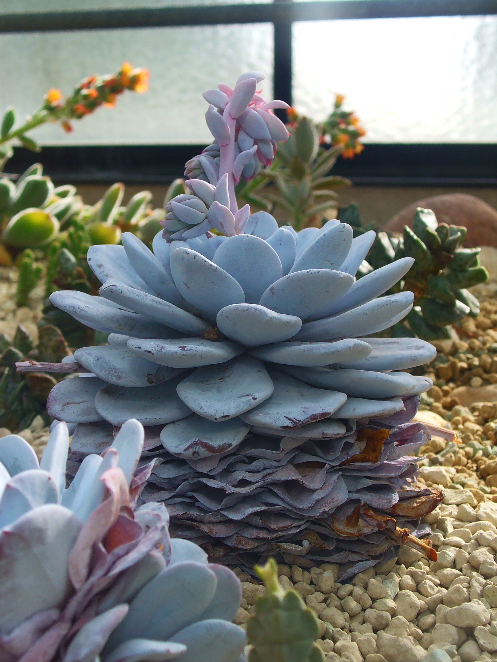 Echeveria laui, Crassulaceae, habitus; Botanic Garden Universiy Tübingen, Germany.